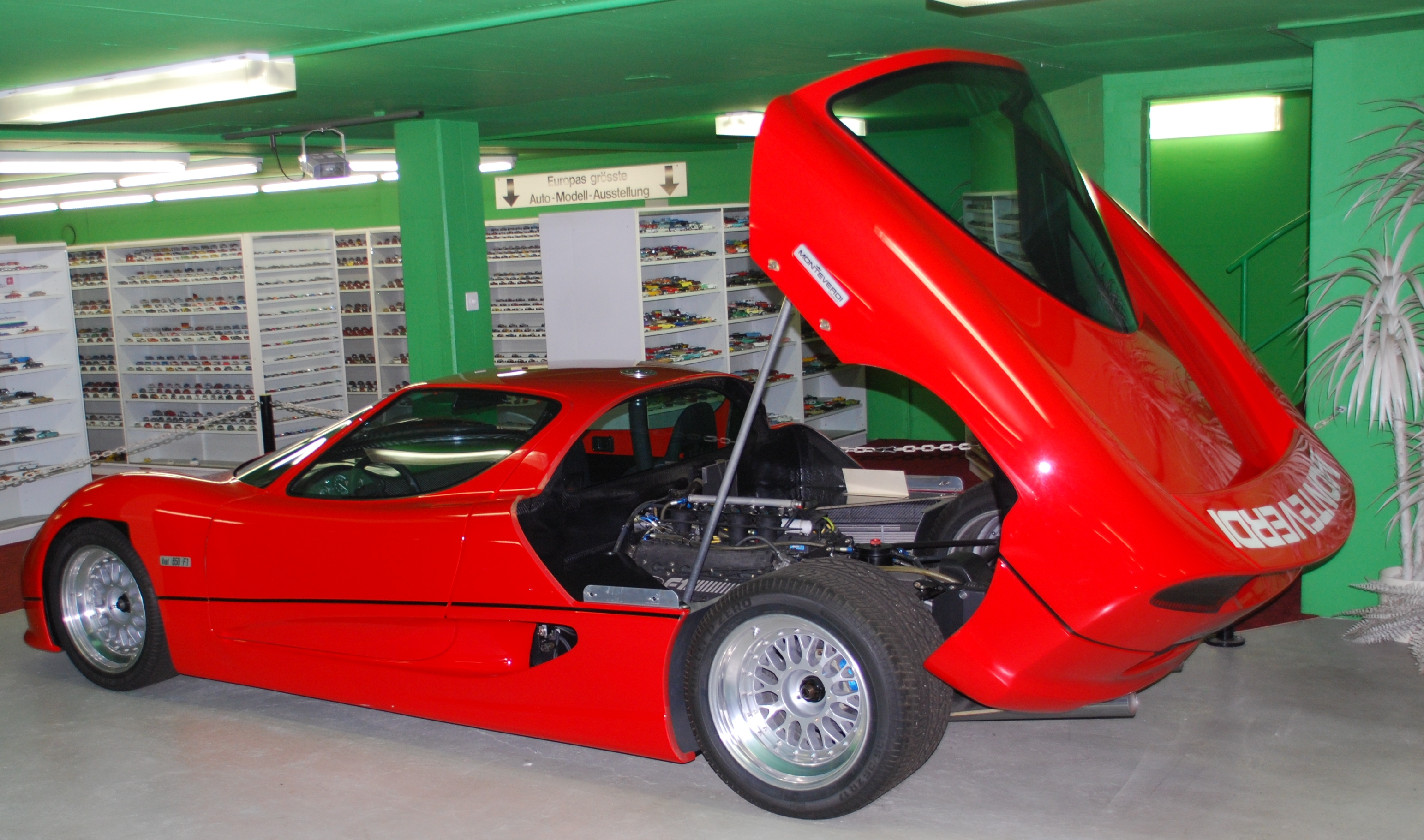 Monteverdi Hai 650 F1 (1992)